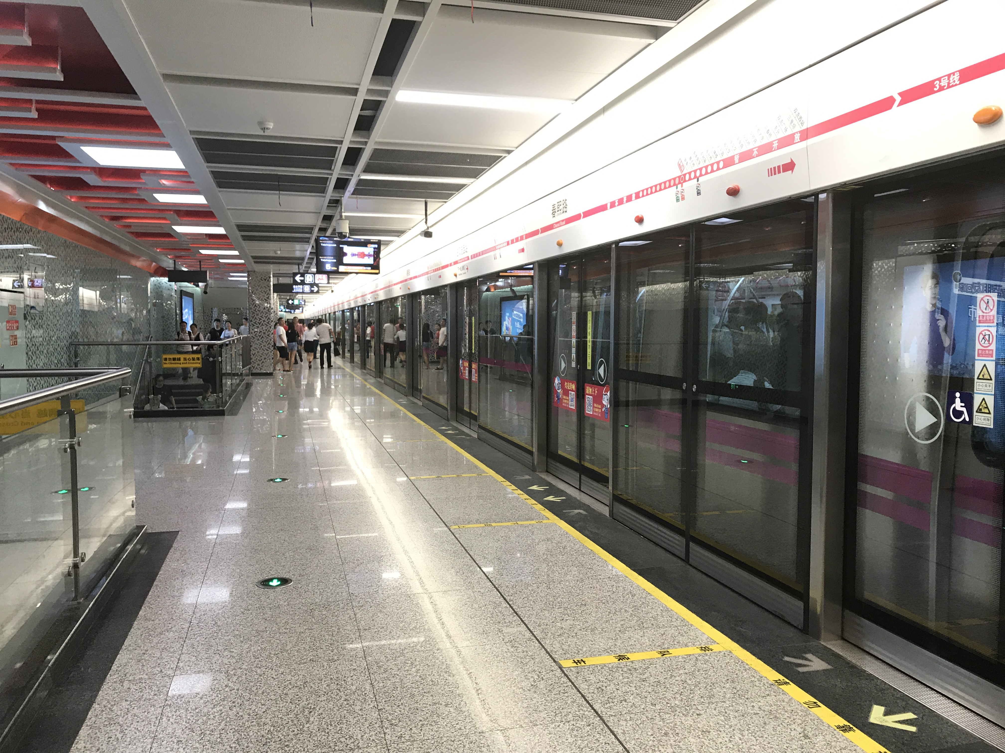 Platform of Line 3 in Chunxi Road Station, Chengdu Metro